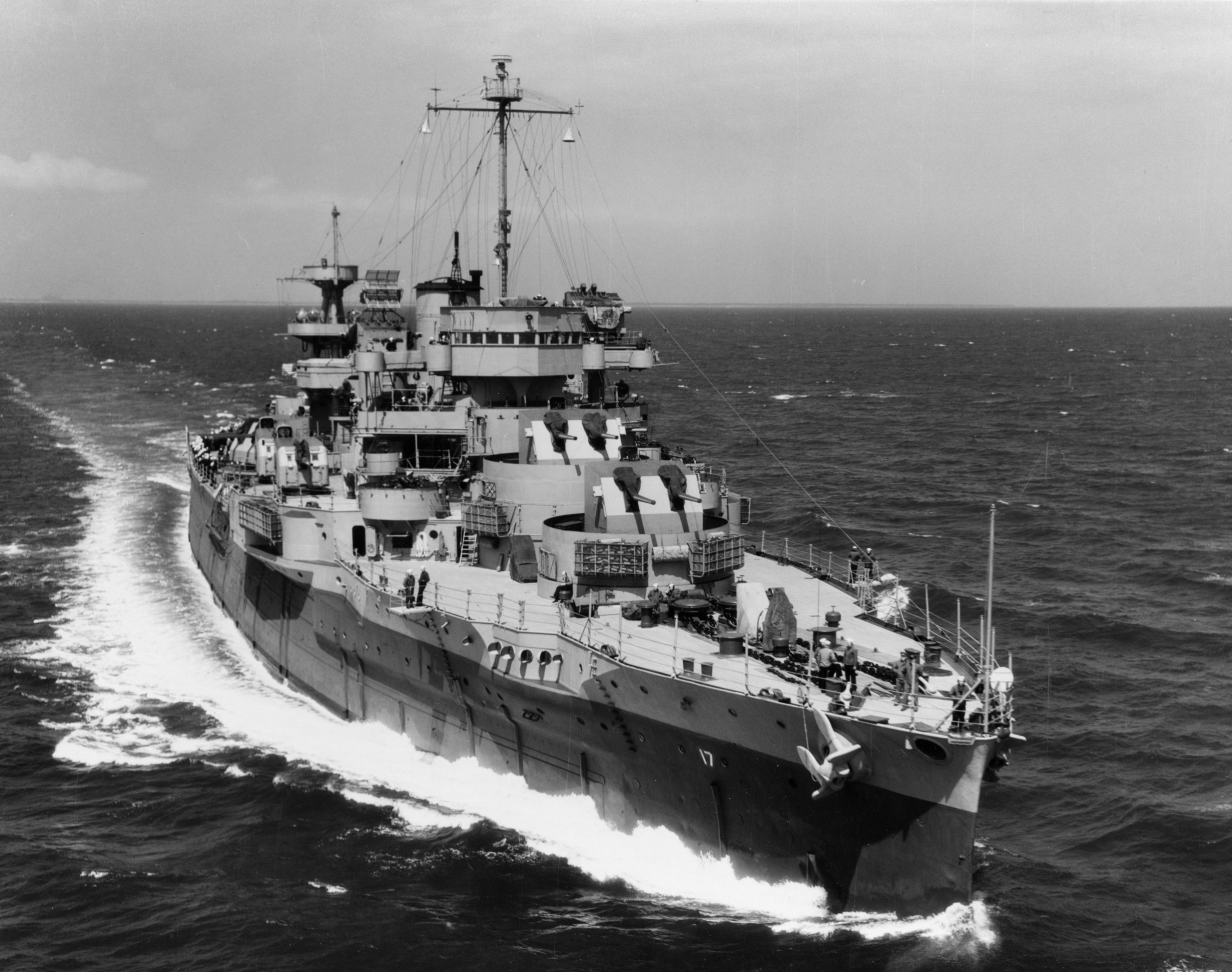 The U.S. Navy gunnery training ship USS Wyoming (AG-17) underway in the Atlantic Ocean on 30 April 1945.